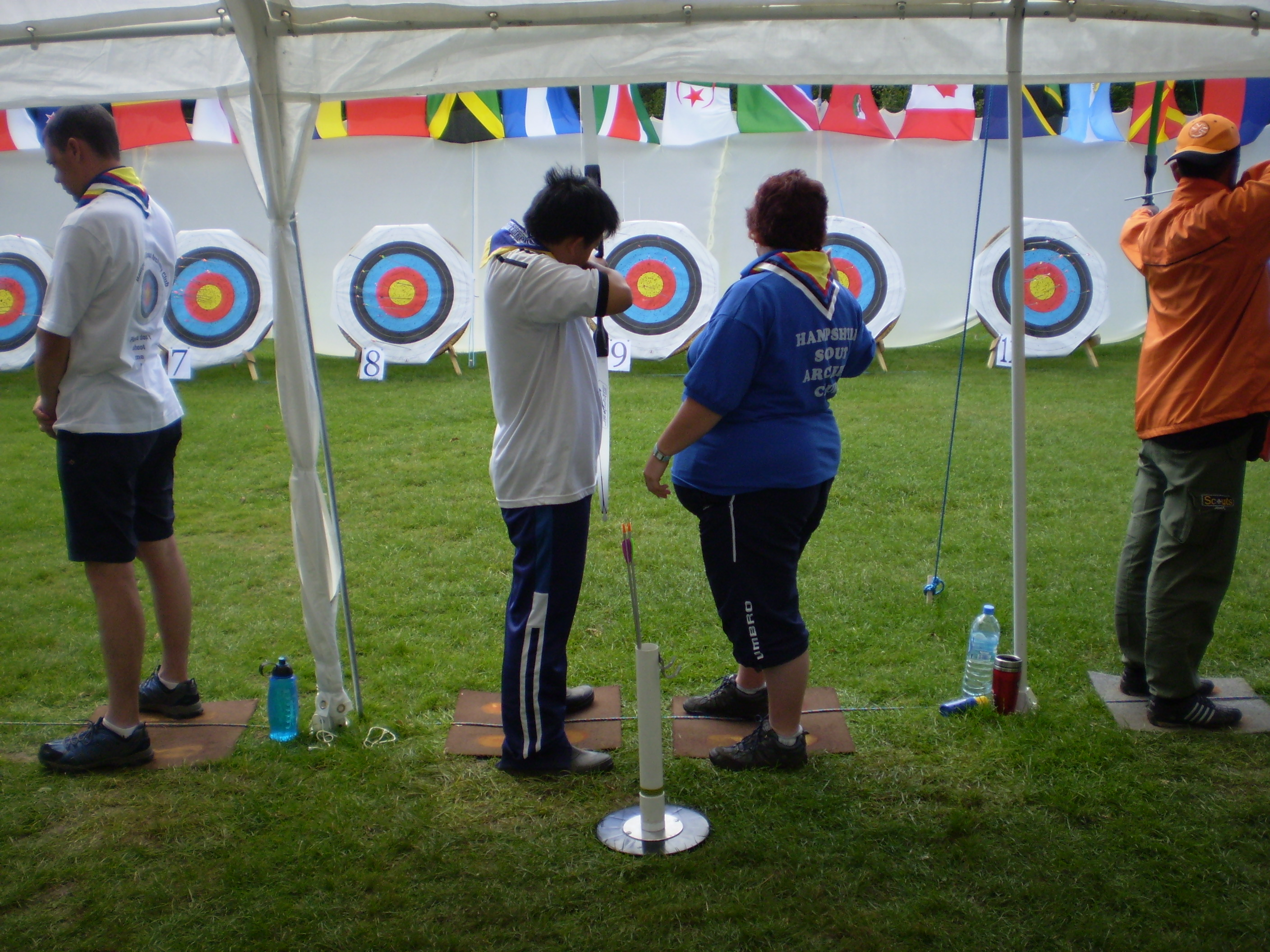 Gilwell Park Mountain/Motion activites at the 21st World Scout Jamboree